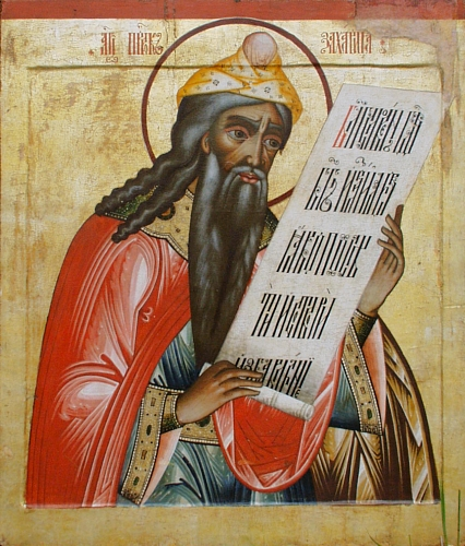 Icon of the Old Testament prophet Zechariah (placed in Kizhi iconostasis between Solomon and Samuel [1])